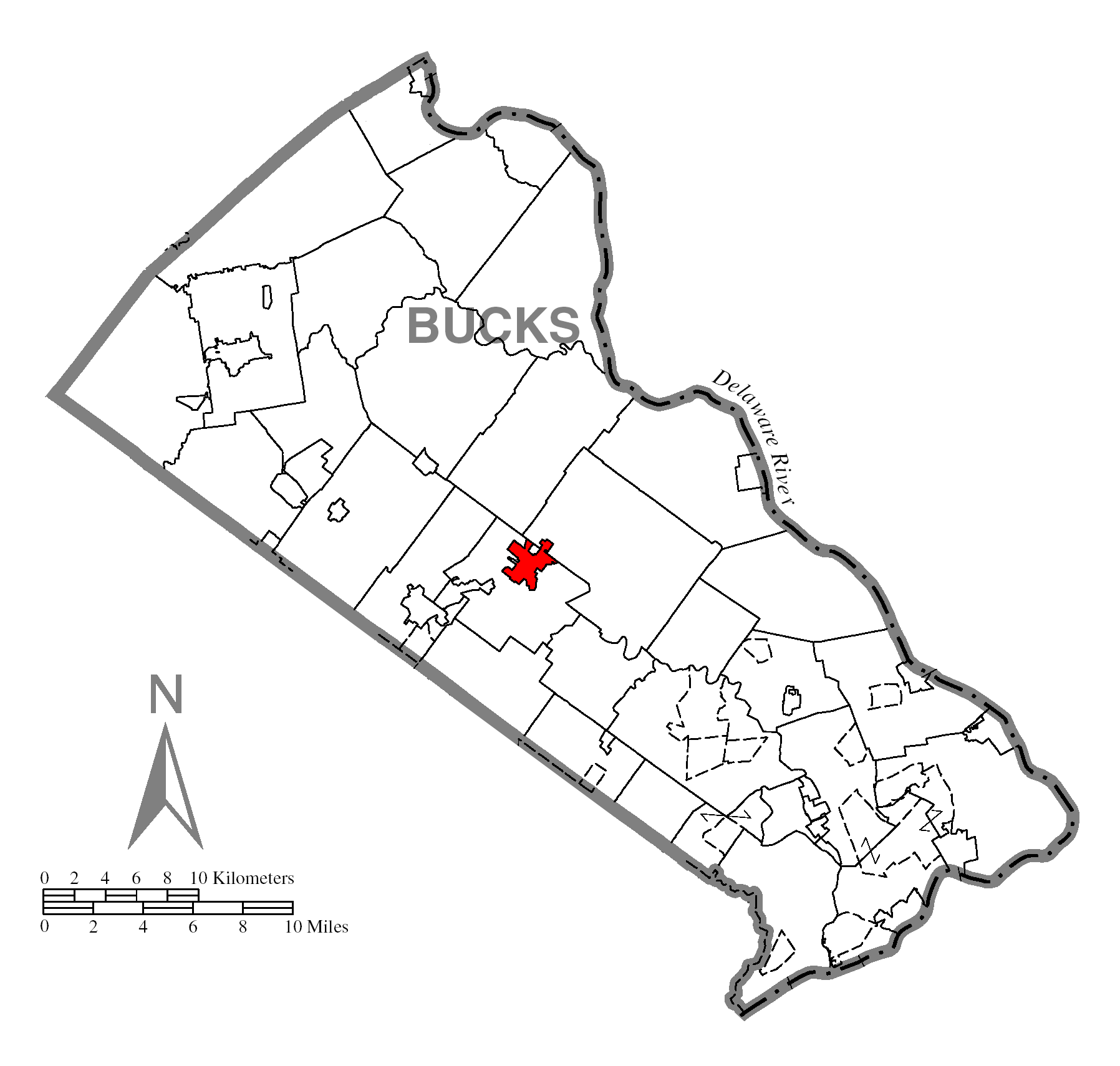 A map of Bucks County showing Doylestown, Pennsylvania (alternate) highlighted on the map.